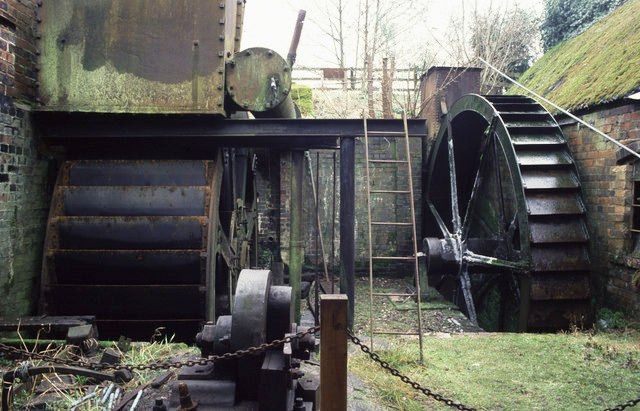 Churchill Forge, Churchill. Spade forge with drop hammers. Open on Mills Open and Heritage Open Days.